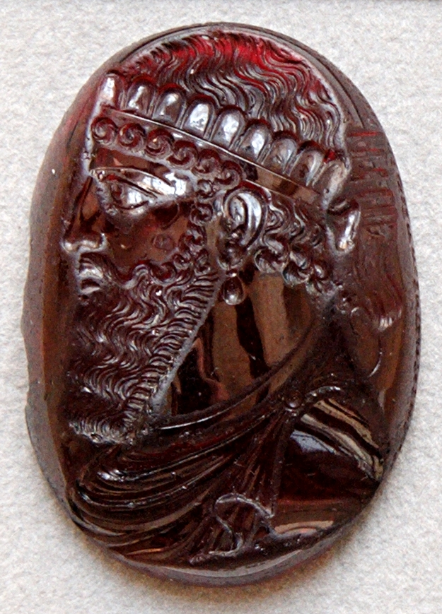 Sasanian intaglio — with the portrait of a king and a Pahlavi inscription: “the Mazdaean lord Shapur, king of kings of Eran”.